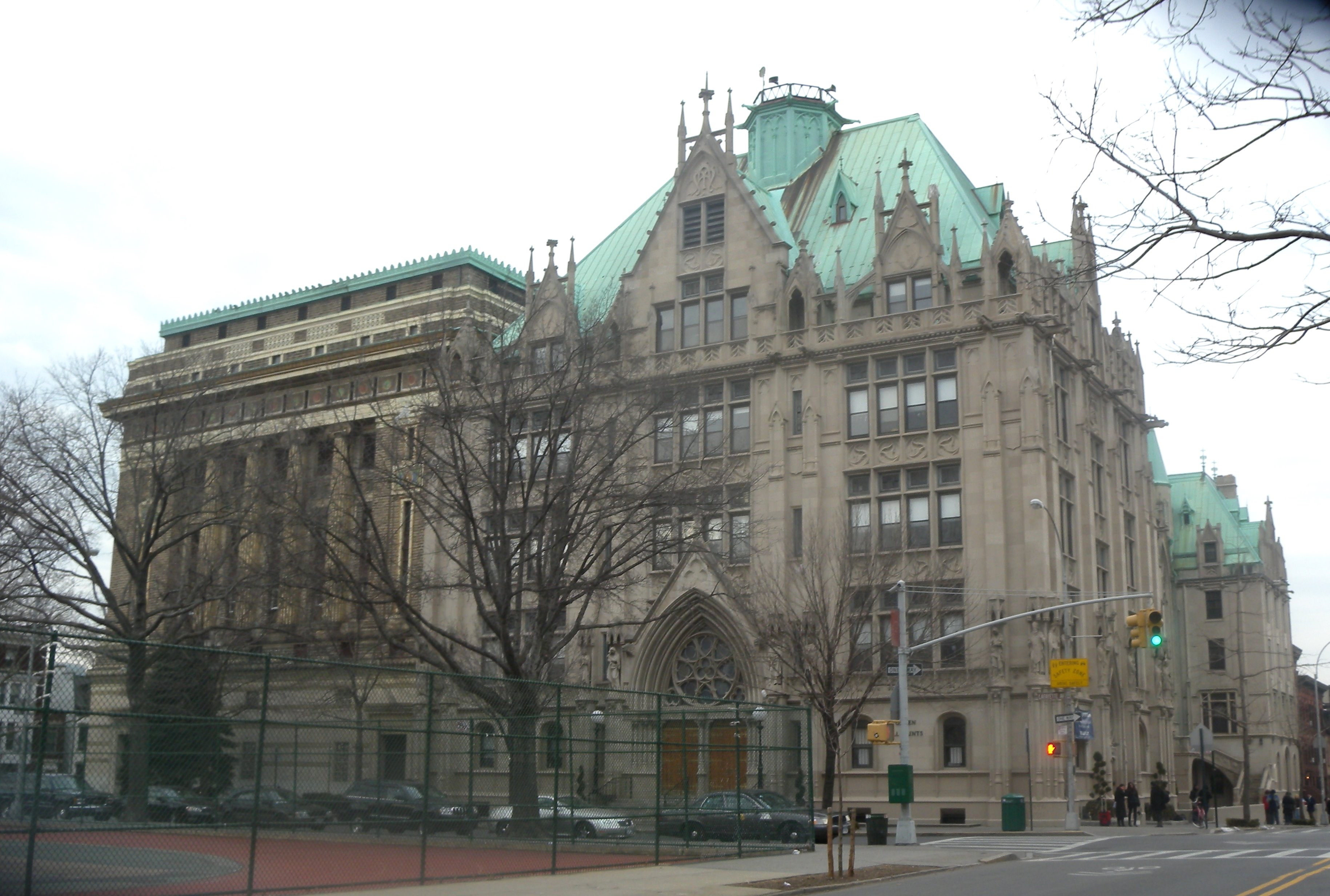 Looking north across Lafayette Avenue at Catholic school on a cloudy afternoon. Brooklyn Masonic Temple is on left.